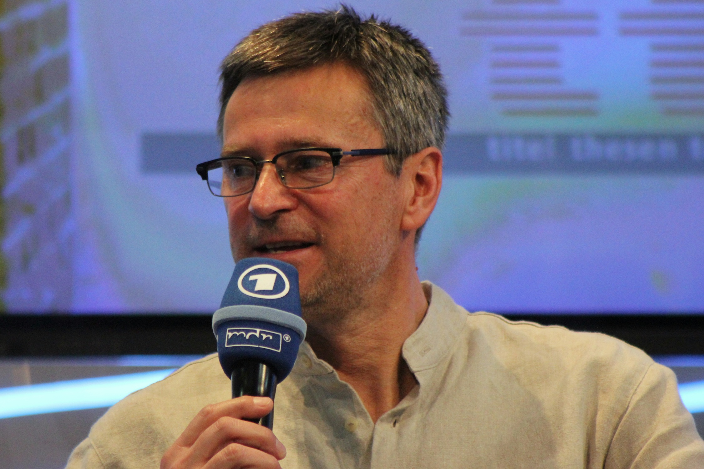 Birk Meinhardt, Leipzig Book Fair 2013